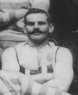 Photograph of Charlie Foletta in 1893.